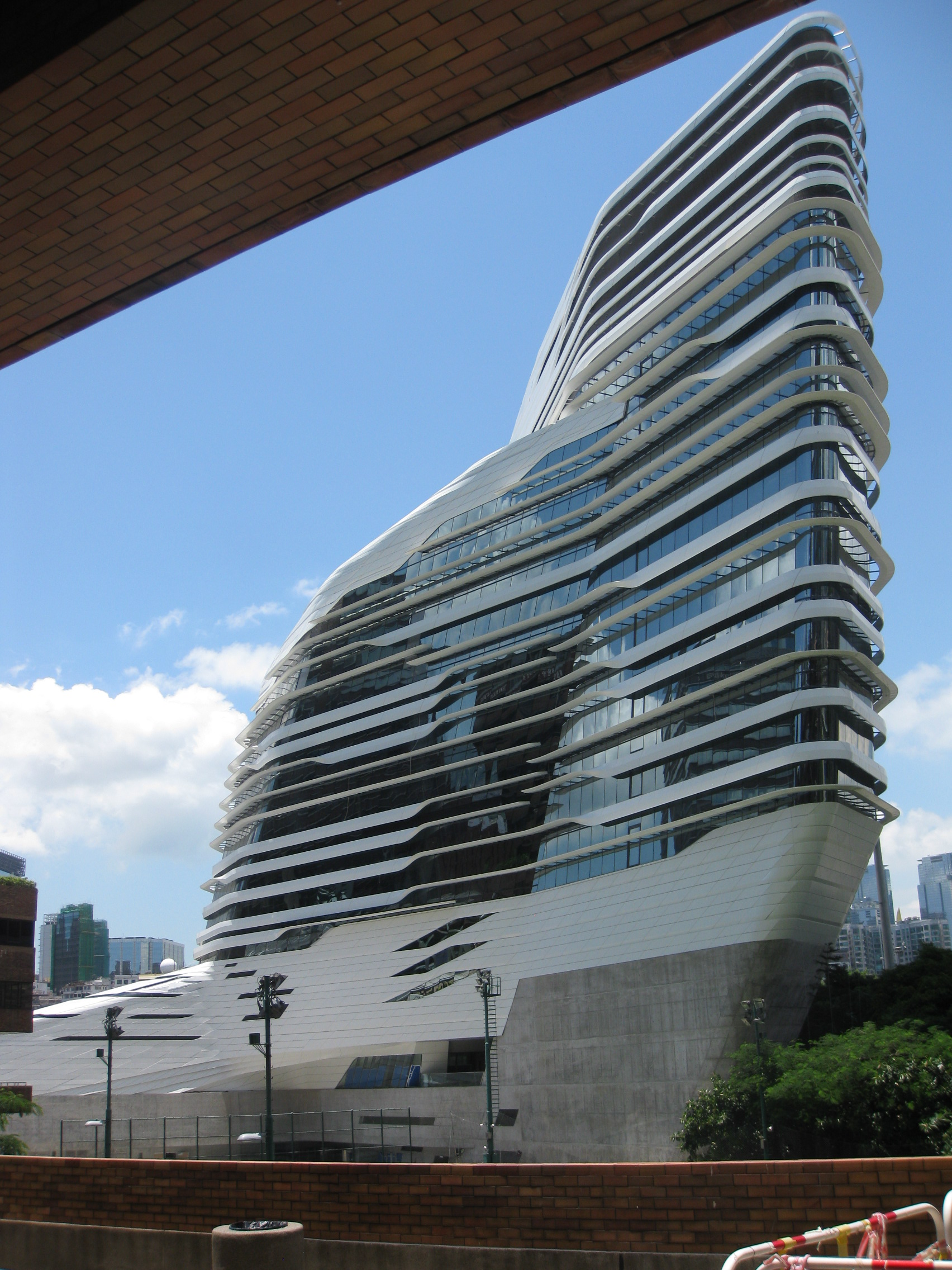 Image section of the HK PolyU Jockey Club Innovation Tower (V)